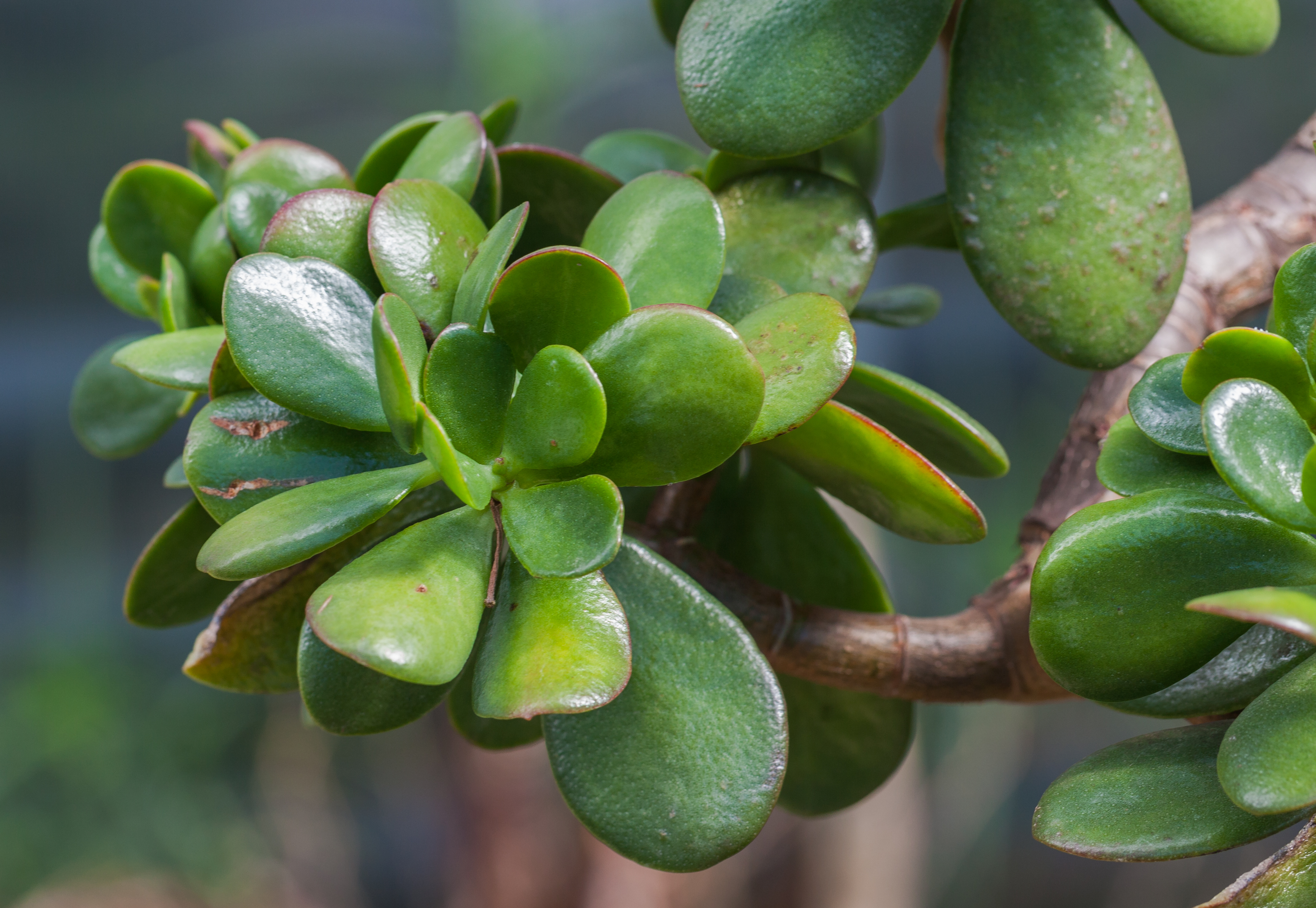 Crassula portulacea, Tallinn Botanic Garden, Estonia